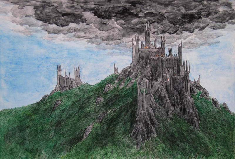 Dol Guldur, fortress of the Dark Lord Sauron.